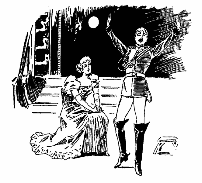 Image taken from listed as public domain